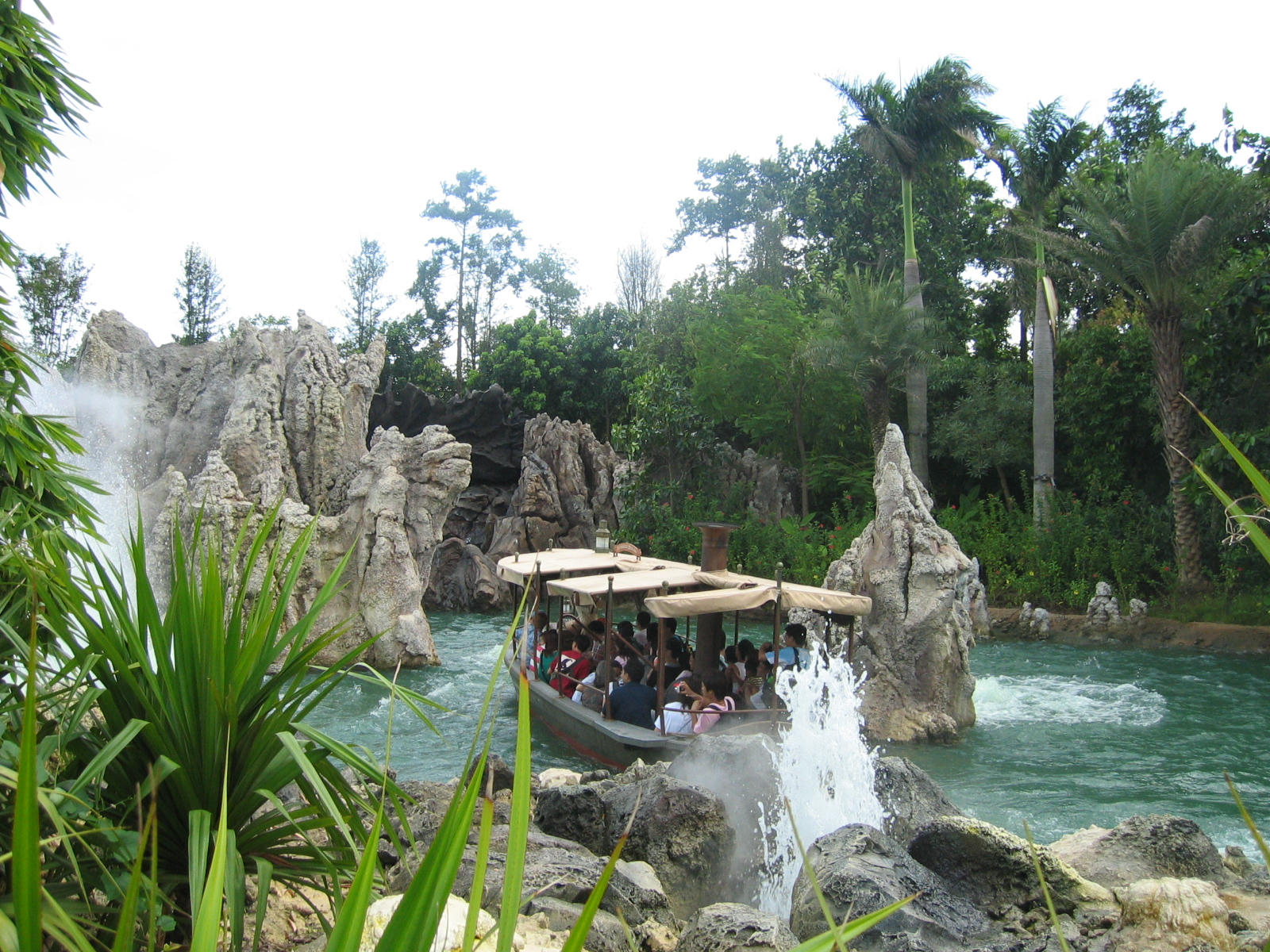 Jungle River Cruise Water effect